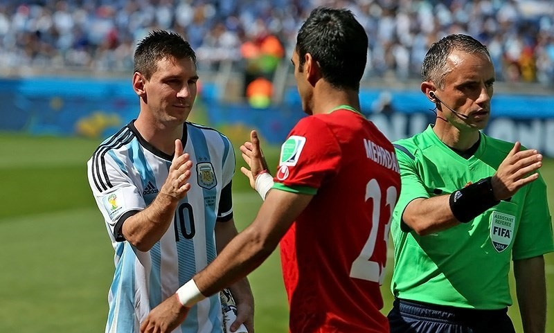 Iran and Argentina national football teams match, 2014 FIFA World Cup Group F